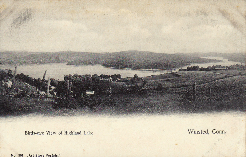 Postcard picture of Highland Lake in Winsted, Connecticut